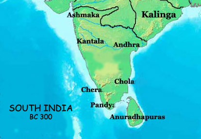 South India in BC 300, created from Thomas Lessman's free domain material